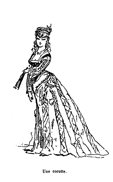 picture of a cocotte from Bertall's Idiotismes animaliers, in Bertall, La Comédie de notre temps : études au crayon et à la plume, Plon, Paris, vol. 2, 1875